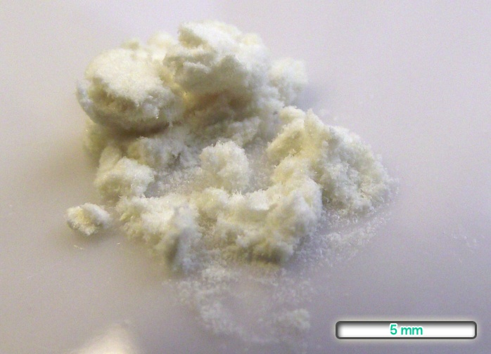 Photo of Flufenamic acid, pure